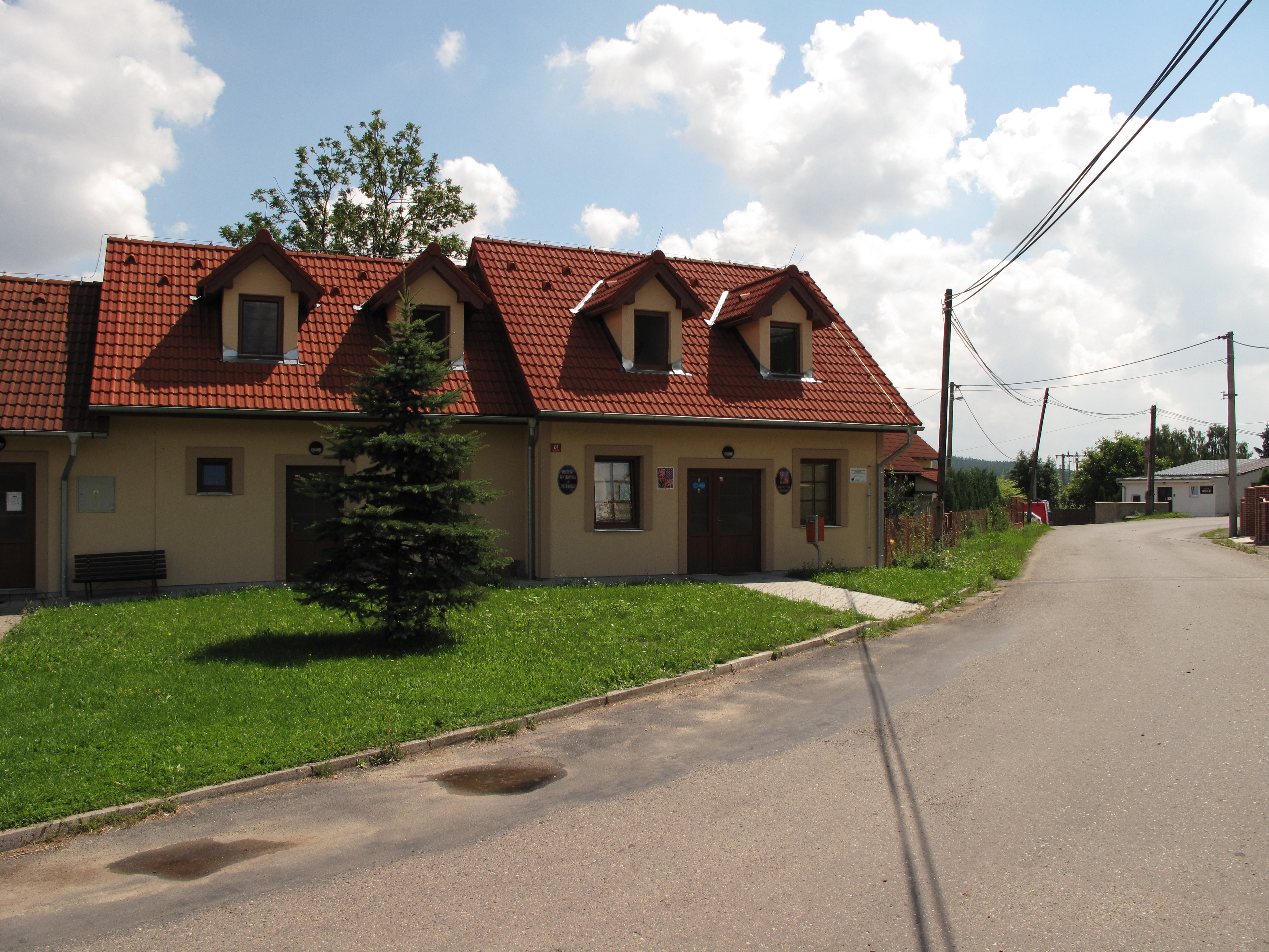 This photograph was taken within the scope of the second year of the 'Czech Municipalities Photographs' grant.